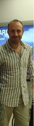 Cropped version picture of Halit Ergenç and Gunes Yakartepe